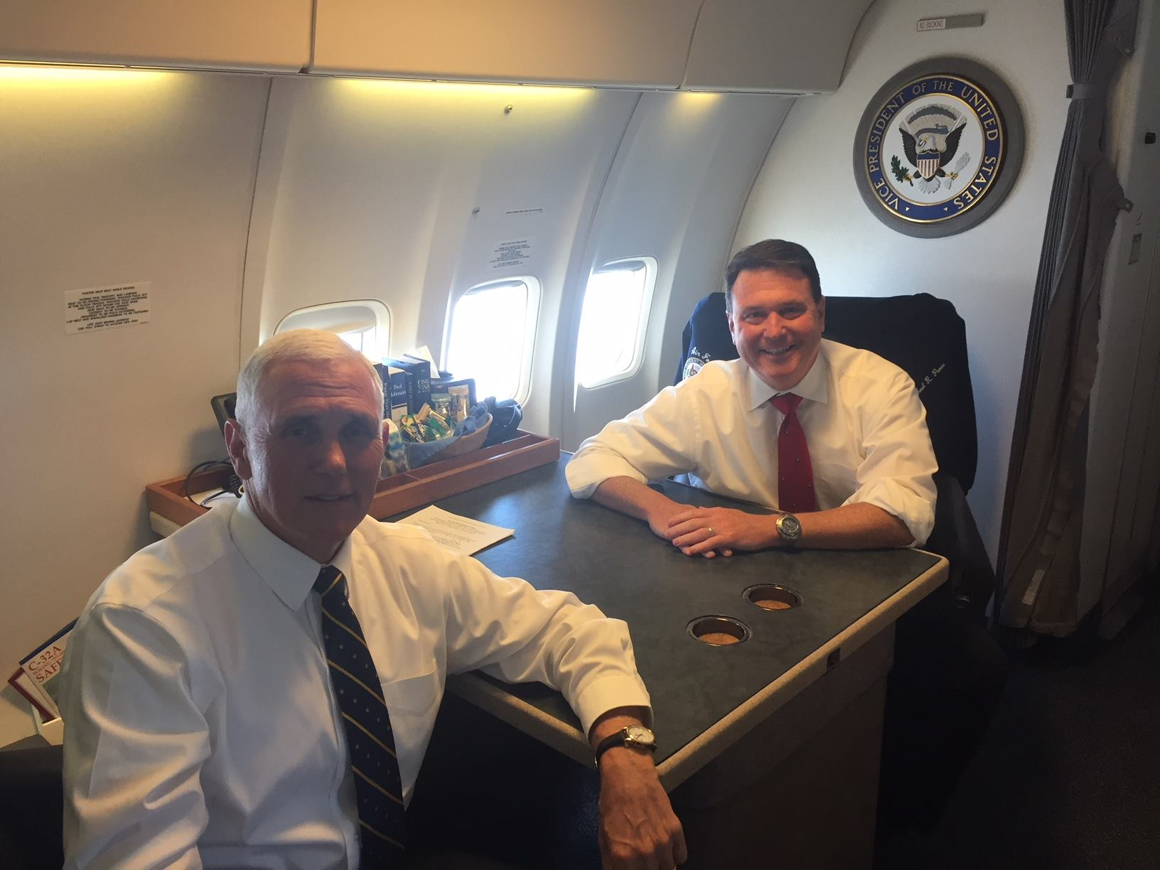 Aboard Air Force Two